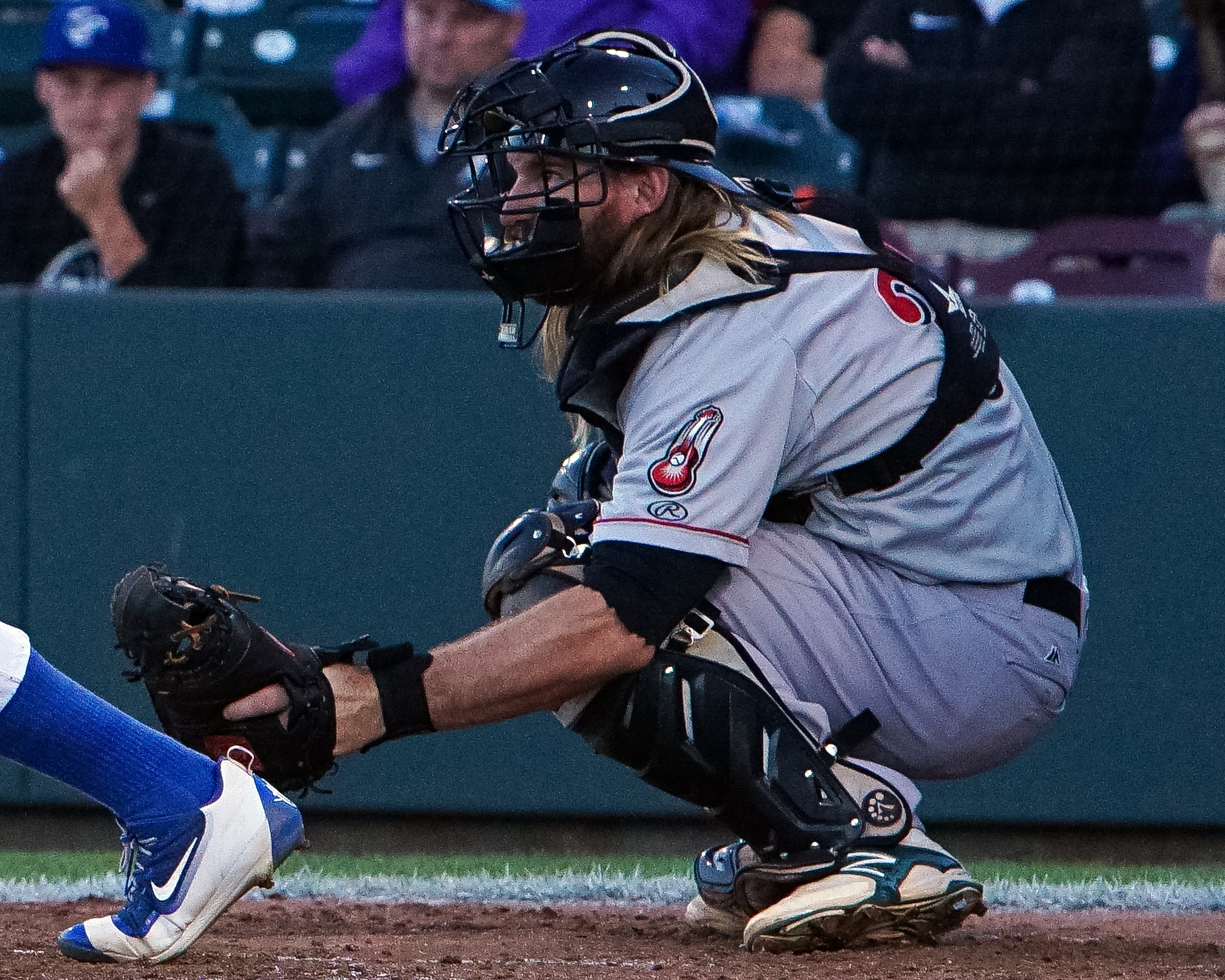 Bryan Anderson, Nashville Sounds catcher USAGE INSTRUCTIONS: You are welcome to share or publish to your own site or social media account, but you MUST credit me, Minda Haas Kuhlmann, or by my Twitter handle (@minda33) or Instagram (minda.haas).